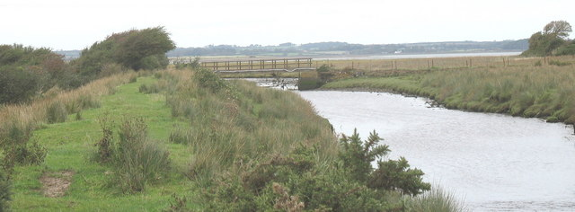 Footbridge over the Tidal Estuary of Afon Carrog.